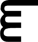 Historical form of representing ನ್ in Kannada script. This is also found in Telugu.Sometimes it has special characteristics. This is modified png version of File:Kannada-archaic-n.jpg